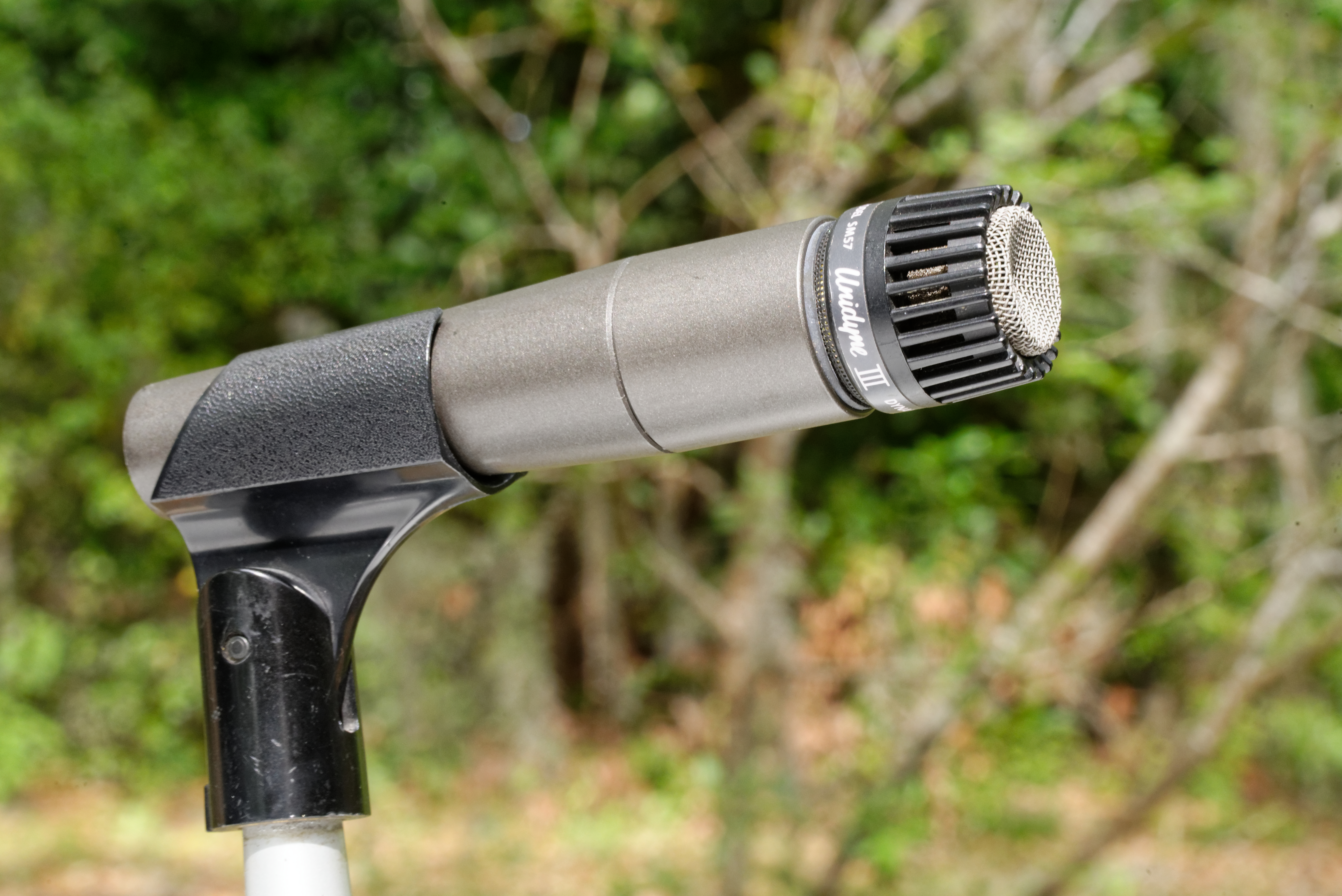 A Shure SM57 Unidyne III microphone, circa 1984